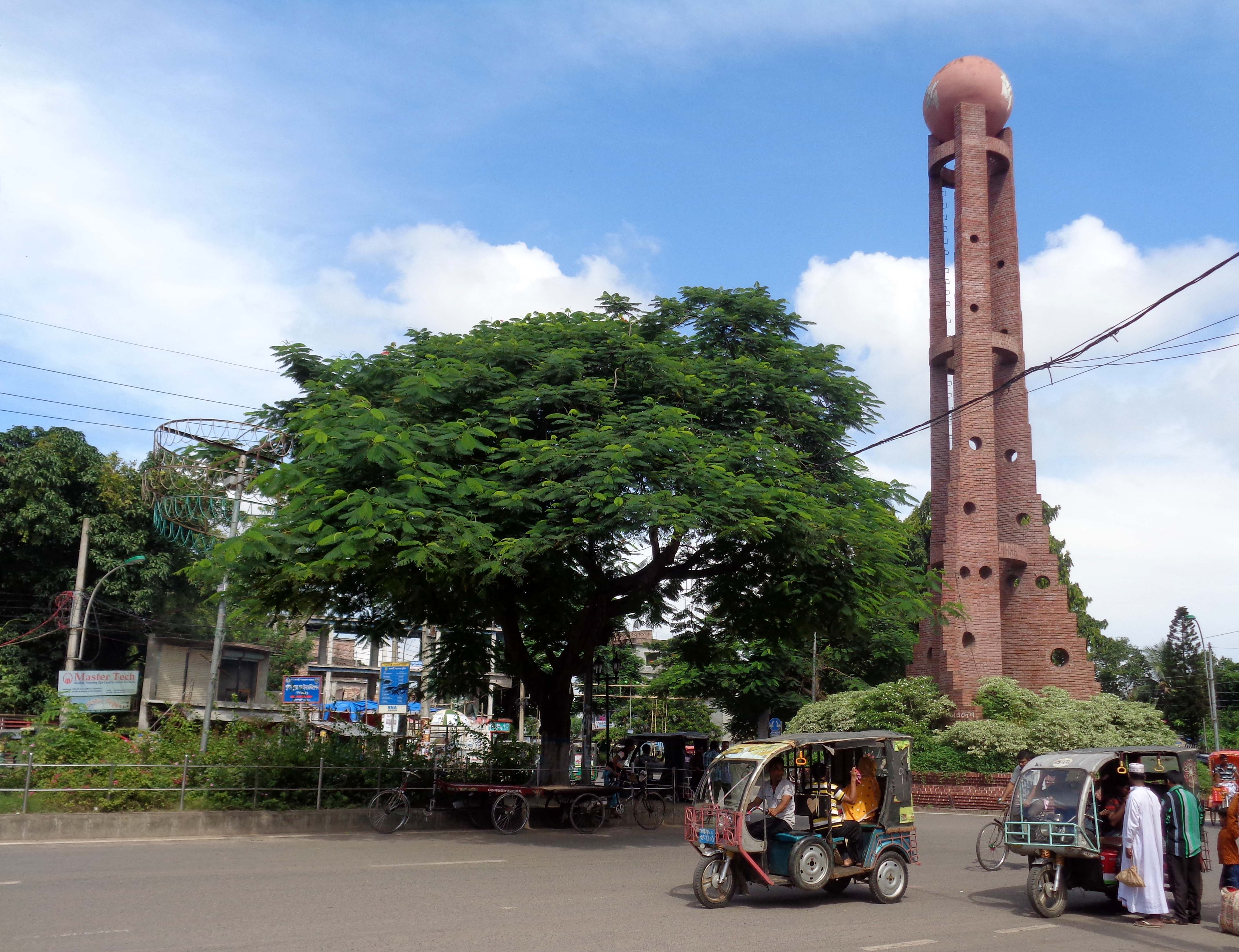 Smriti Amlan, vodra more, Rajshahi.